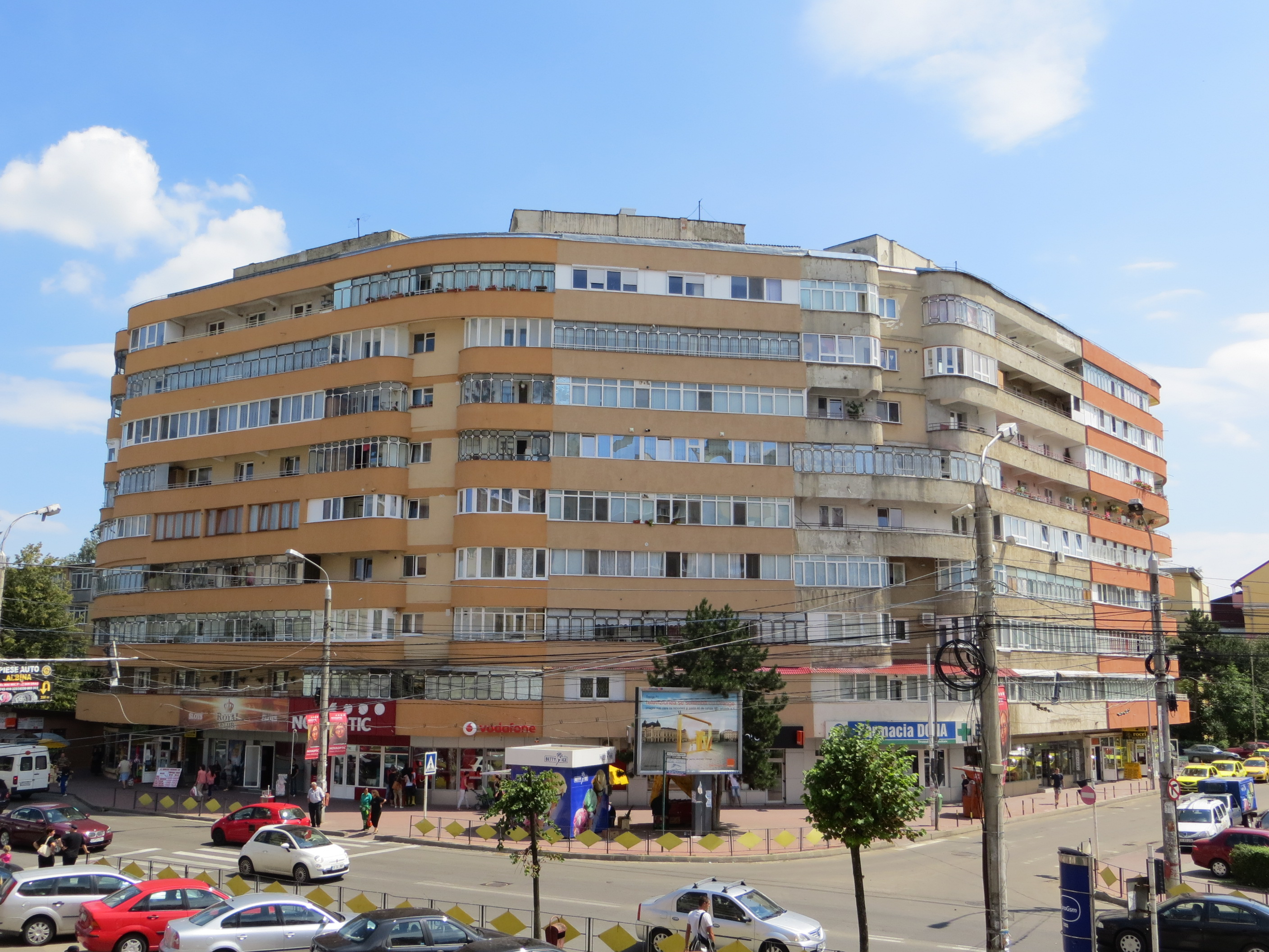 Apartment block in Suceava (Curcubeul block).